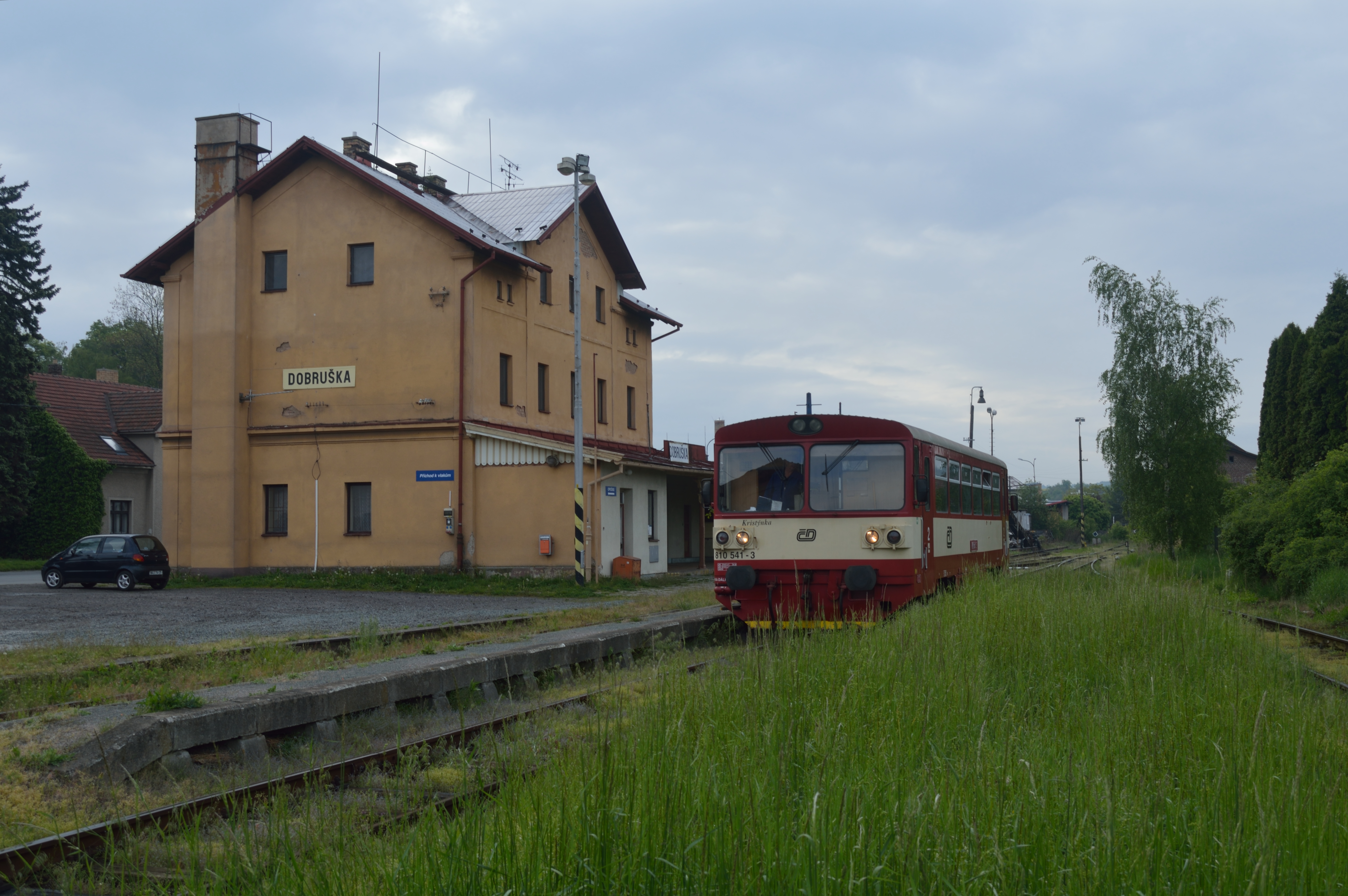 After Solnice, the single car plus trailer made its way in almost a full circle to Dobruška just a few kms away although over an hour by train. The trailer was detached en-route at Týniště nad Orlicí. Dobruška sees just one train in and out per weekday during term time. Consequently it was quite well loaded with school children and students on the way down. There is no afternoon balancing working. Despite just the one train a day, the station building still survives although as with many on the European continent they are used for residential purposes. Prior to its return departure, 810.451 sits and waits departure on train Os25106, 07:40 Dobruska to Častolovice on 14 May 2014.